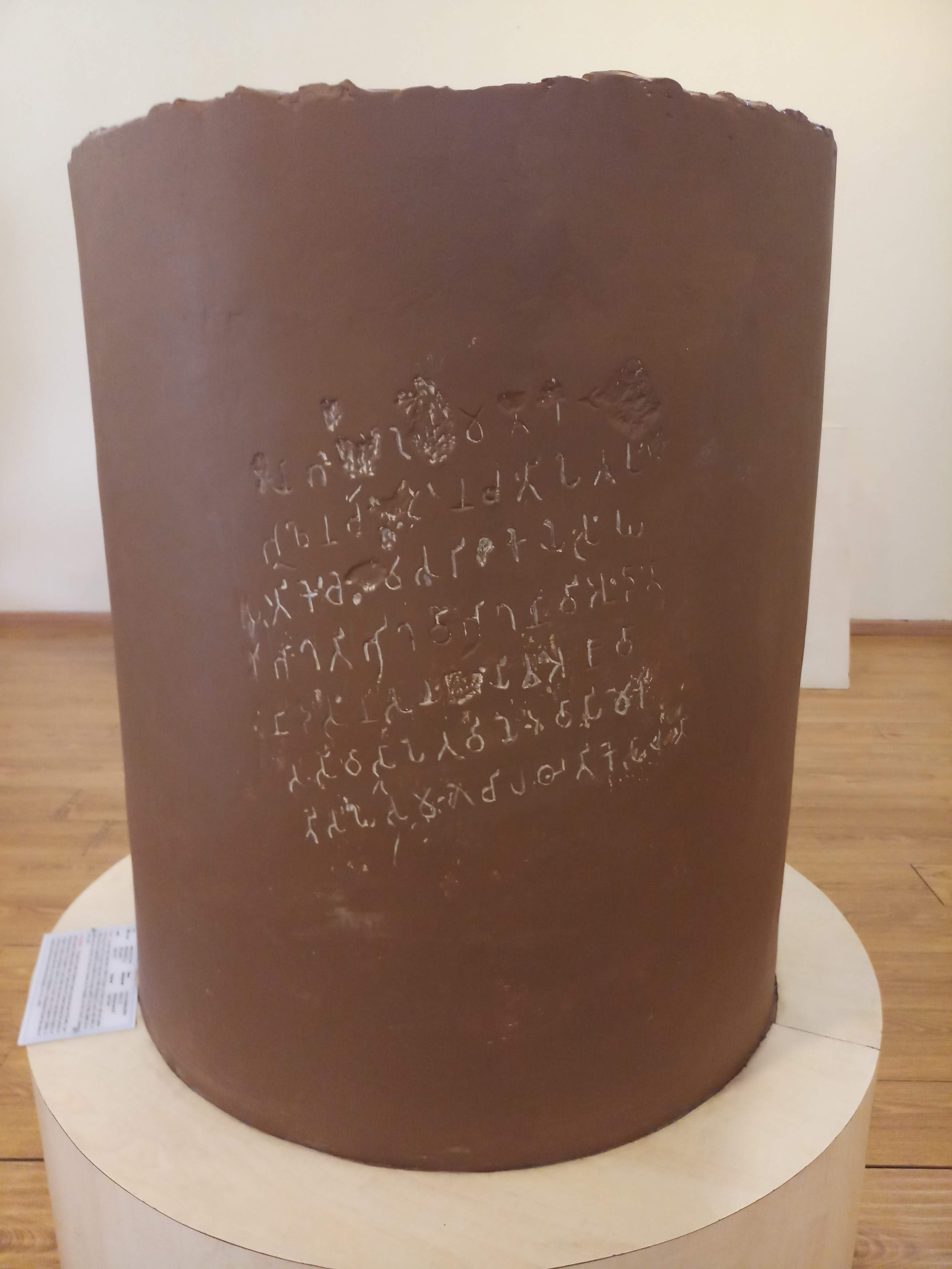 Monument at Sanchi Stupa India